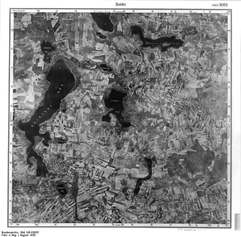 Soldin